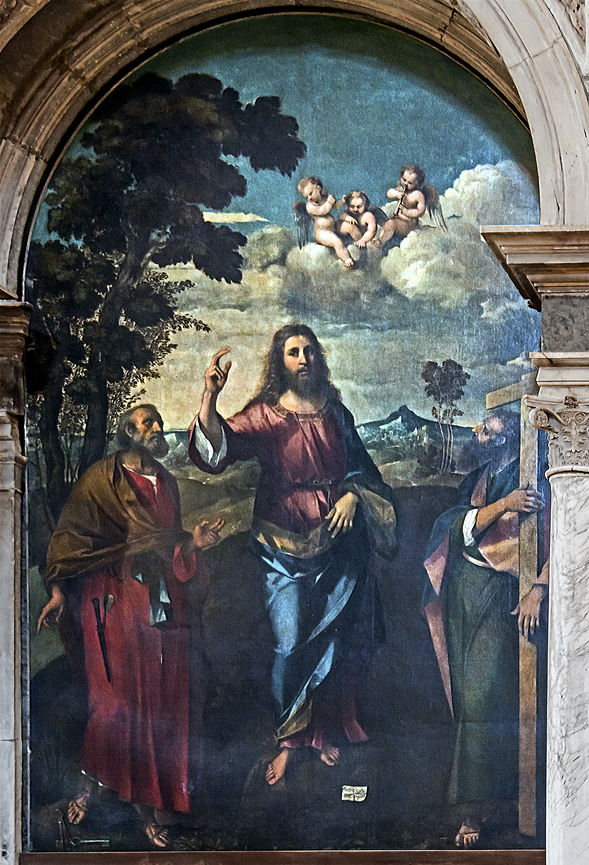 Left transept of Santi Giovanni e Paolo in Venice - Rocco Marconi, Christ between SS Peter and Andrew. Oil on canvas.